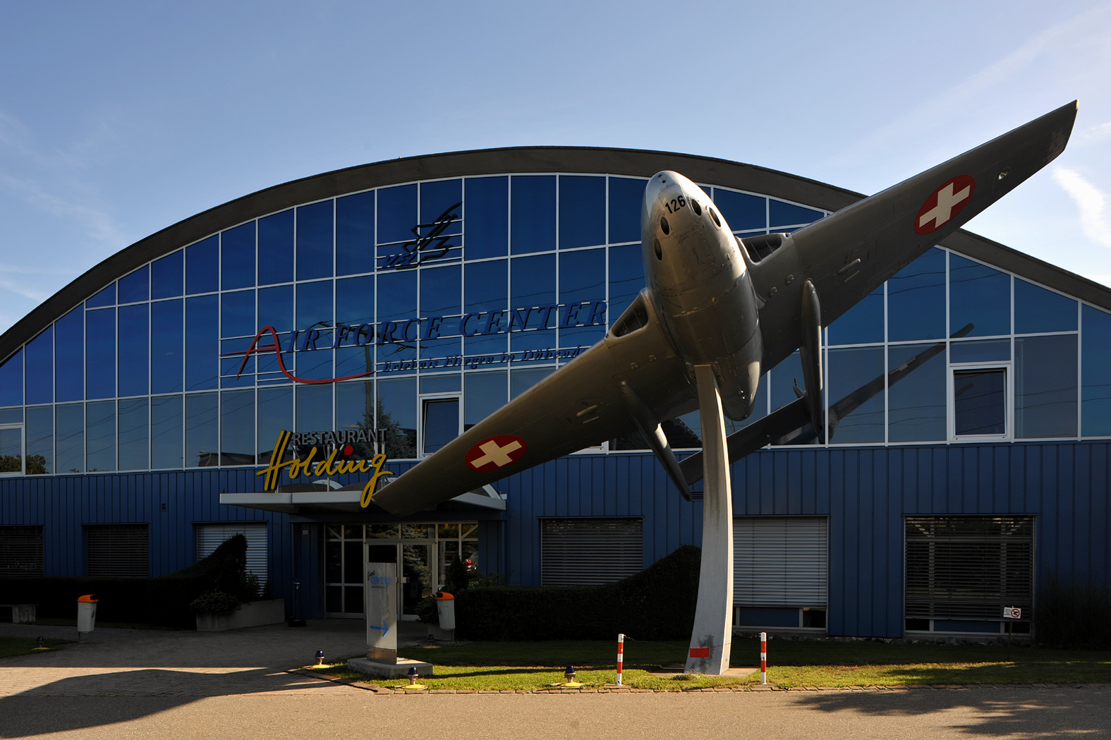 Isler shell, concrete shell roof of the Aviation Flab Museum in Dübendorf, built 1986; Zurich, Switzerland.